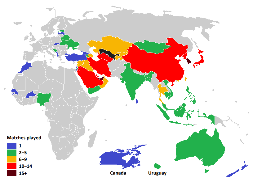 Uzbekistan national football team opponent teams map. Countries with which the national football team of Uzbekistan played matches.